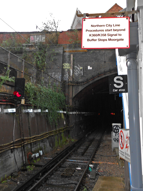 NCL Start of Regulations Procedures at Drayton Park